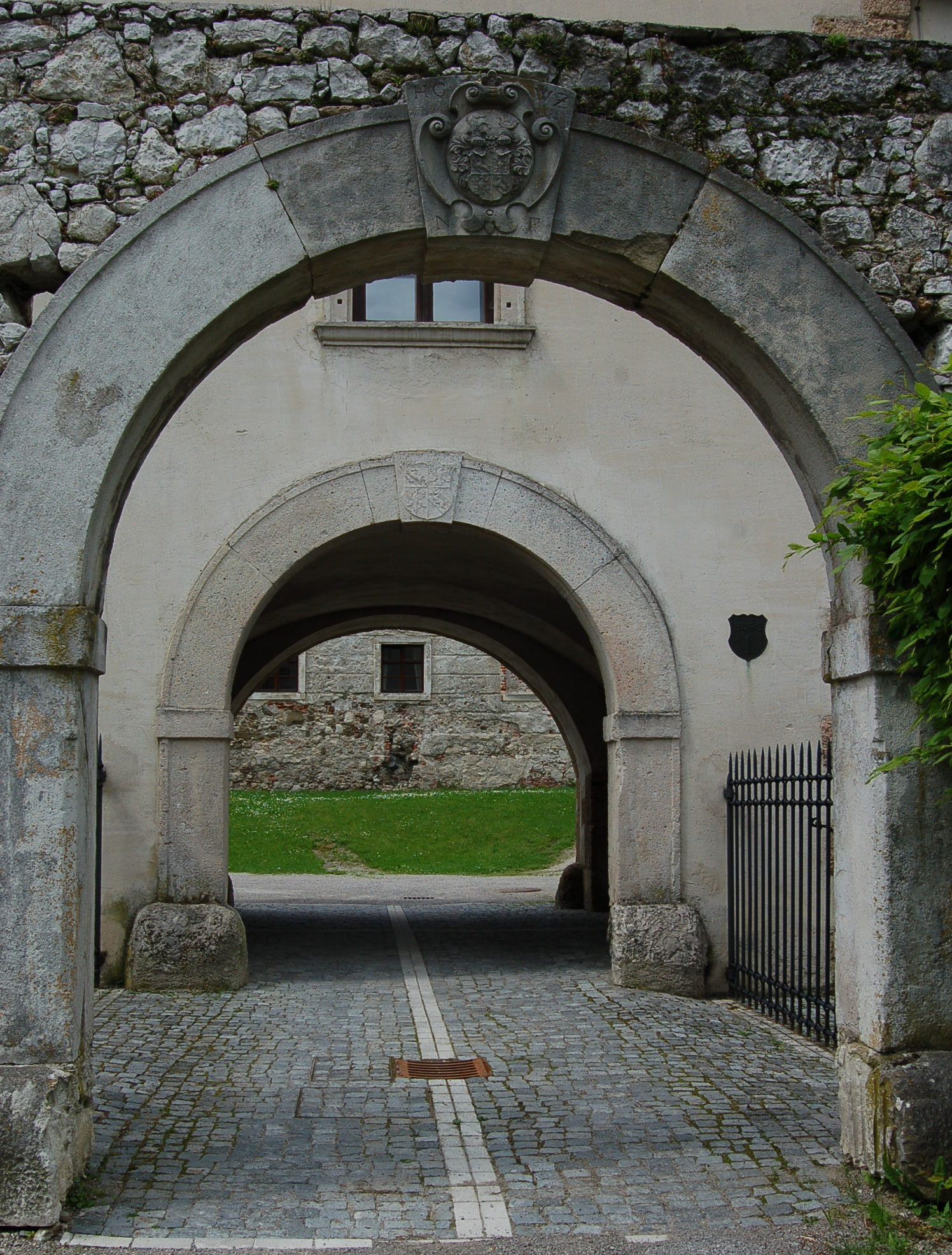 Portal of Neuhaus Castle, municipality Weissenbach an der Triesting, Lower Austria